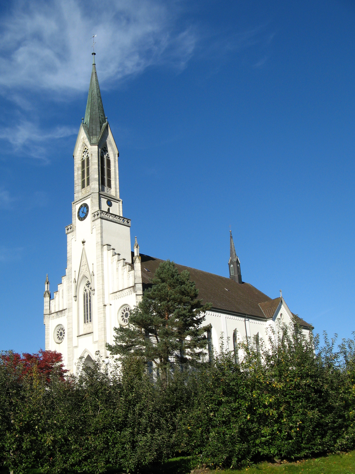 St George's parish church in Bünzen, view from the south